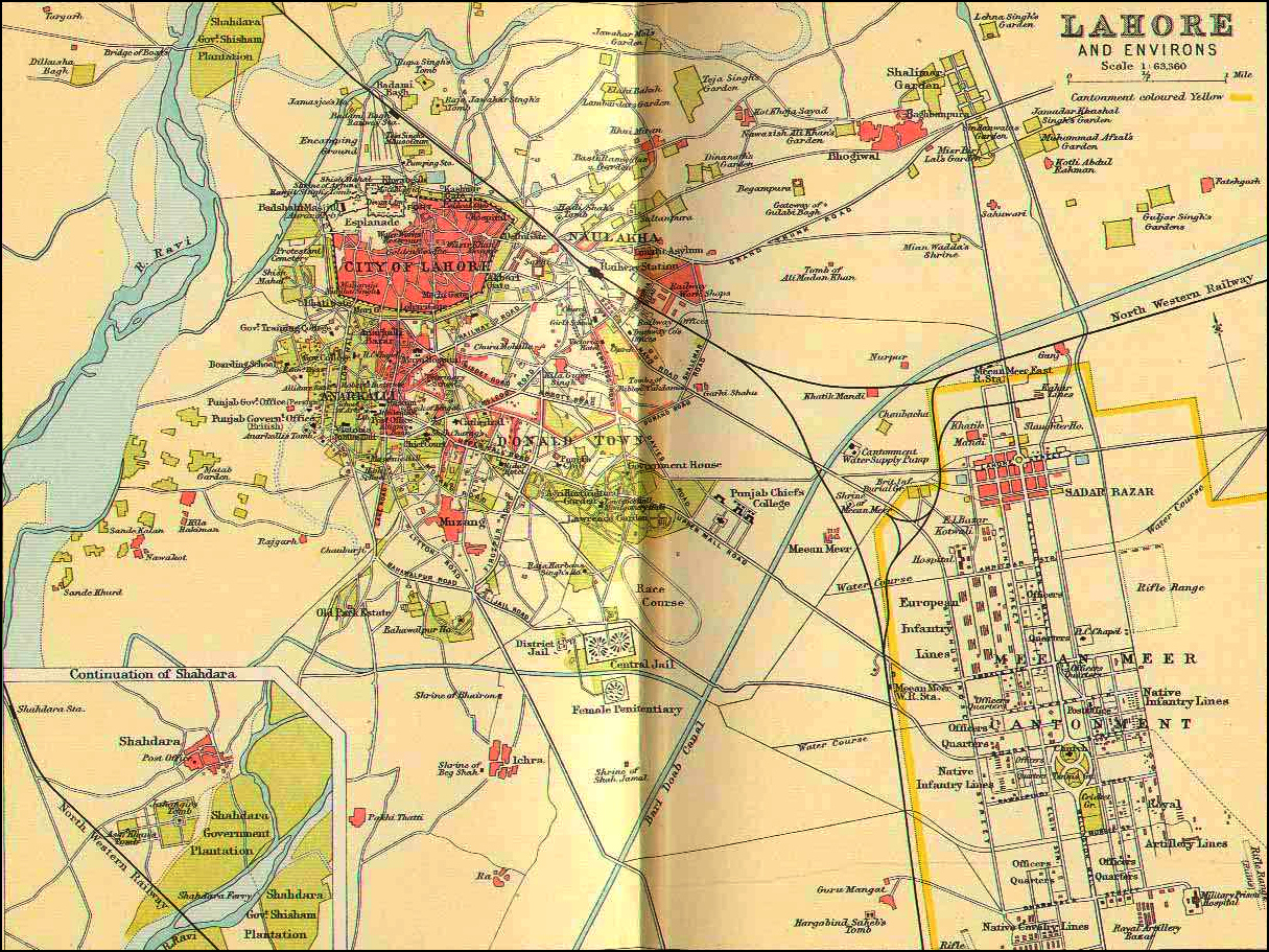 1893 Map of Lahore